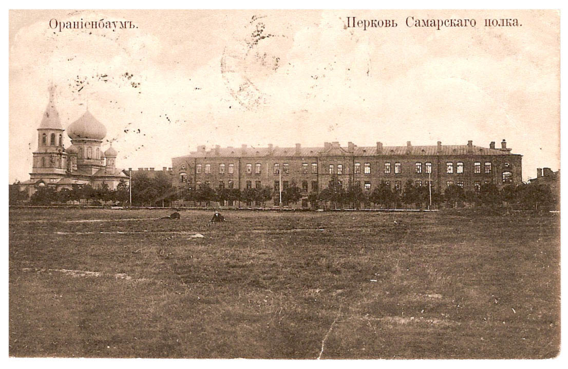 Oranienbaum. Church of Samarsky regiment